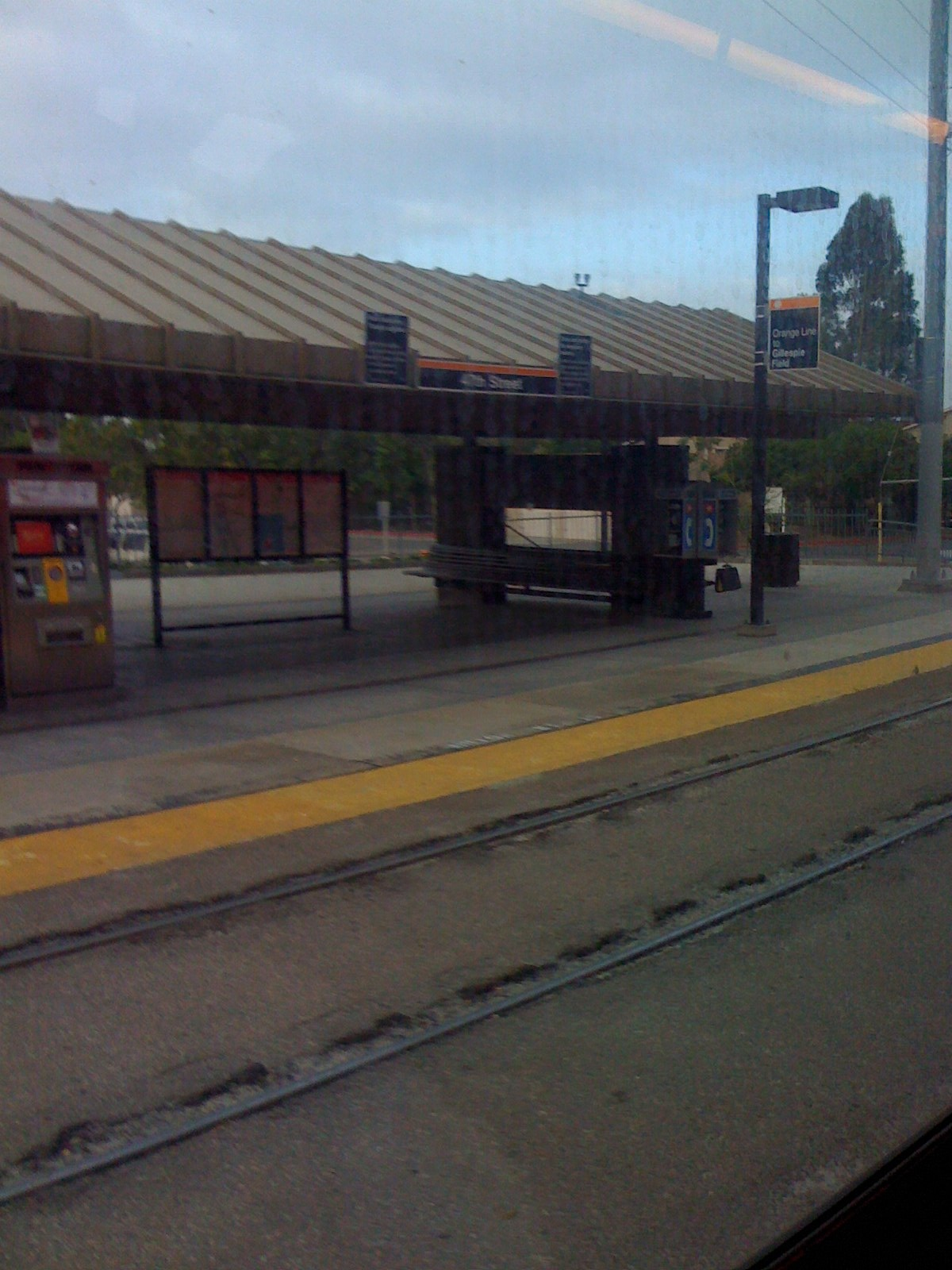 This is actually 47th st not 42nd st - San Diego Trolley Station